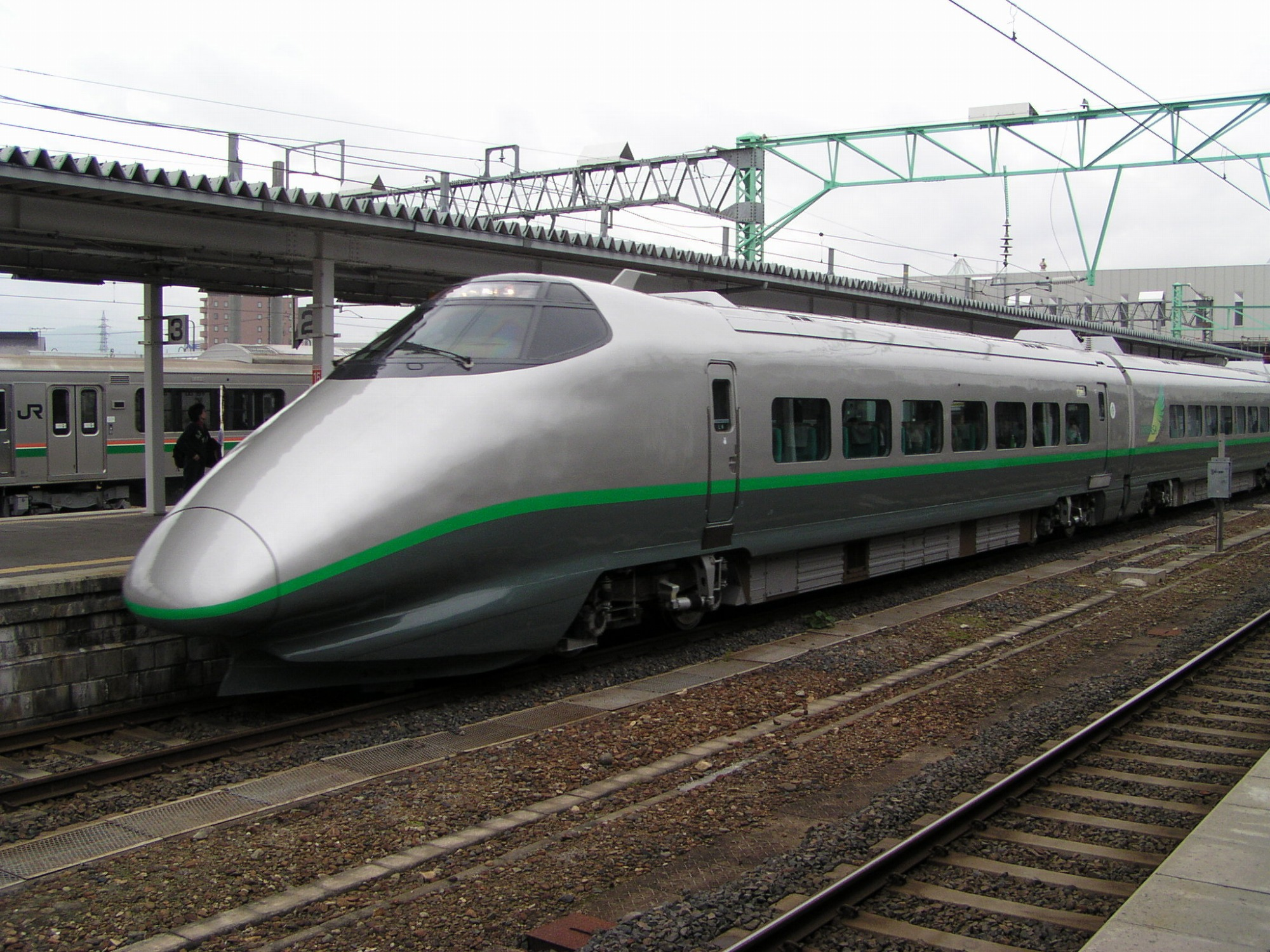 JR East 400 series shinkansen set L6 at Yonezawa Station